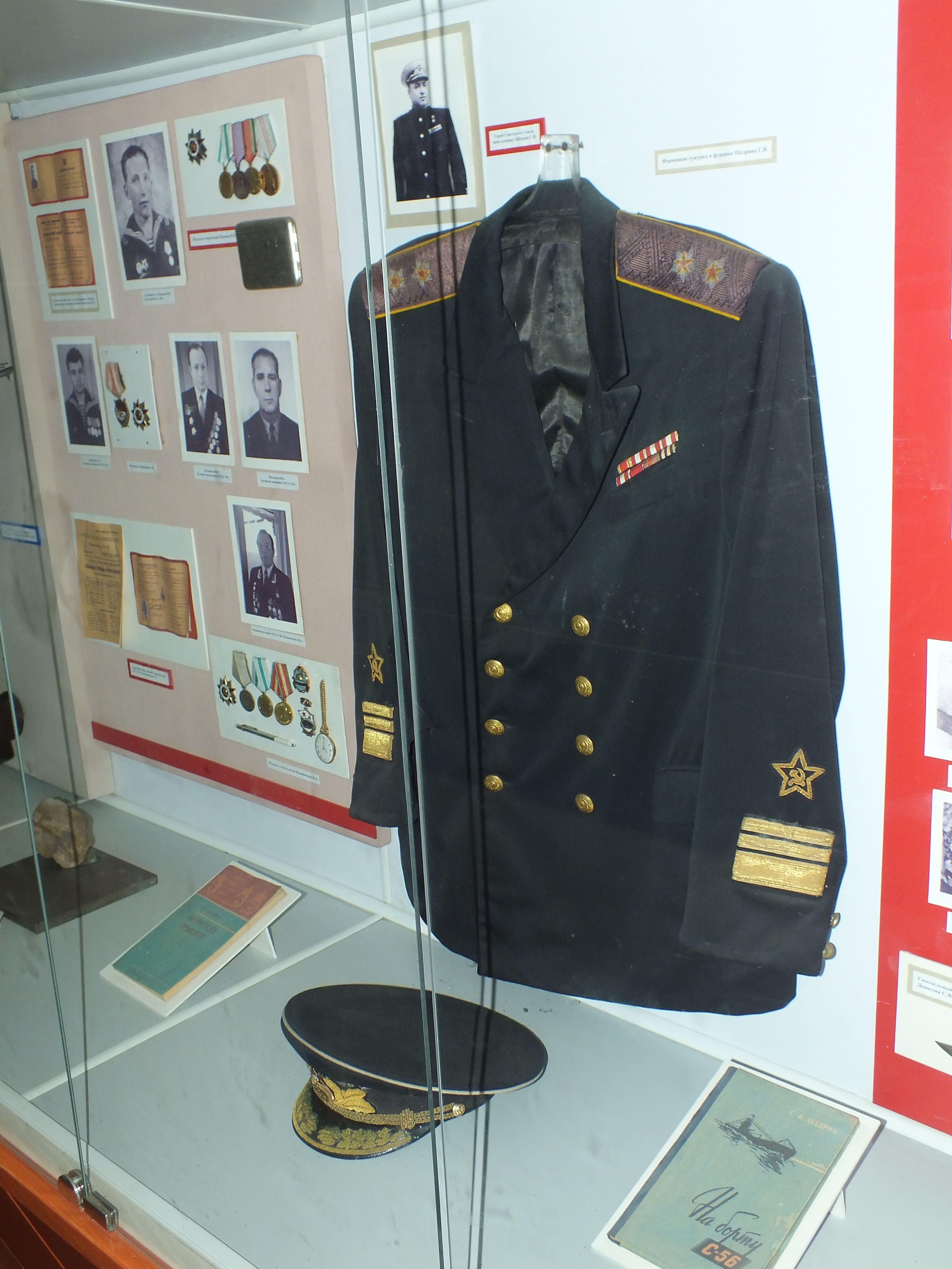 S-56 Submarine Monument (Vladivostok)